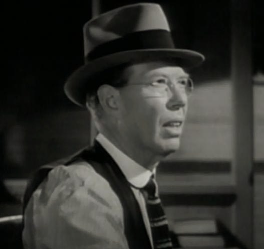 Walter Baldwin in The Strange Love of Martha Ivers - cropped screenshot